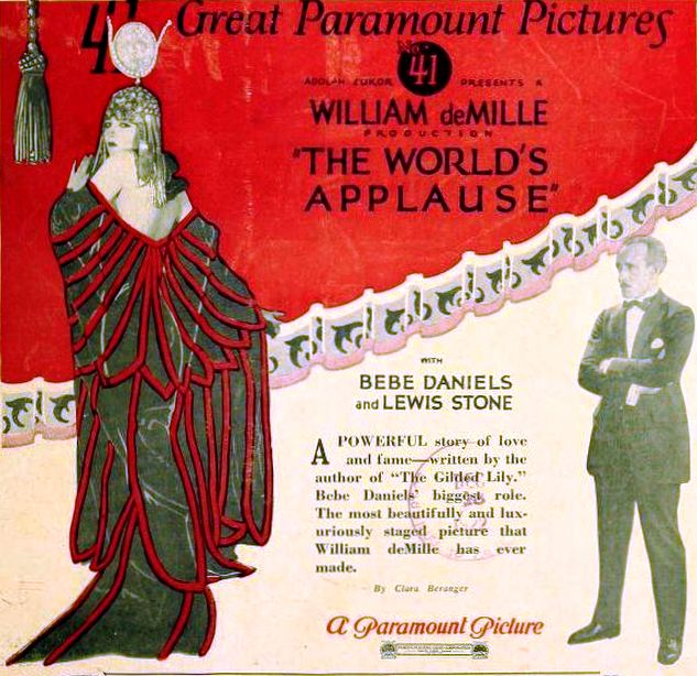 Advertisement for the American film The World's Applause (1923) with Bebe Daniels and Lewis Stone, on the cover of the December 16, 1922 Exhibitor's Trade Review.